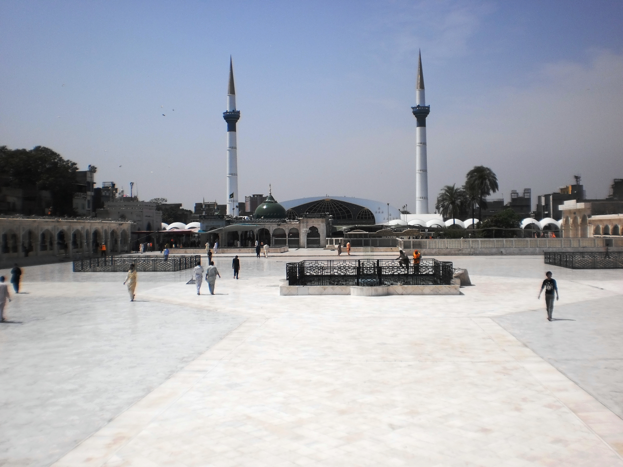 Beautiful Compound of Hazrat Data Ganj Baksh Shrine, Lahore